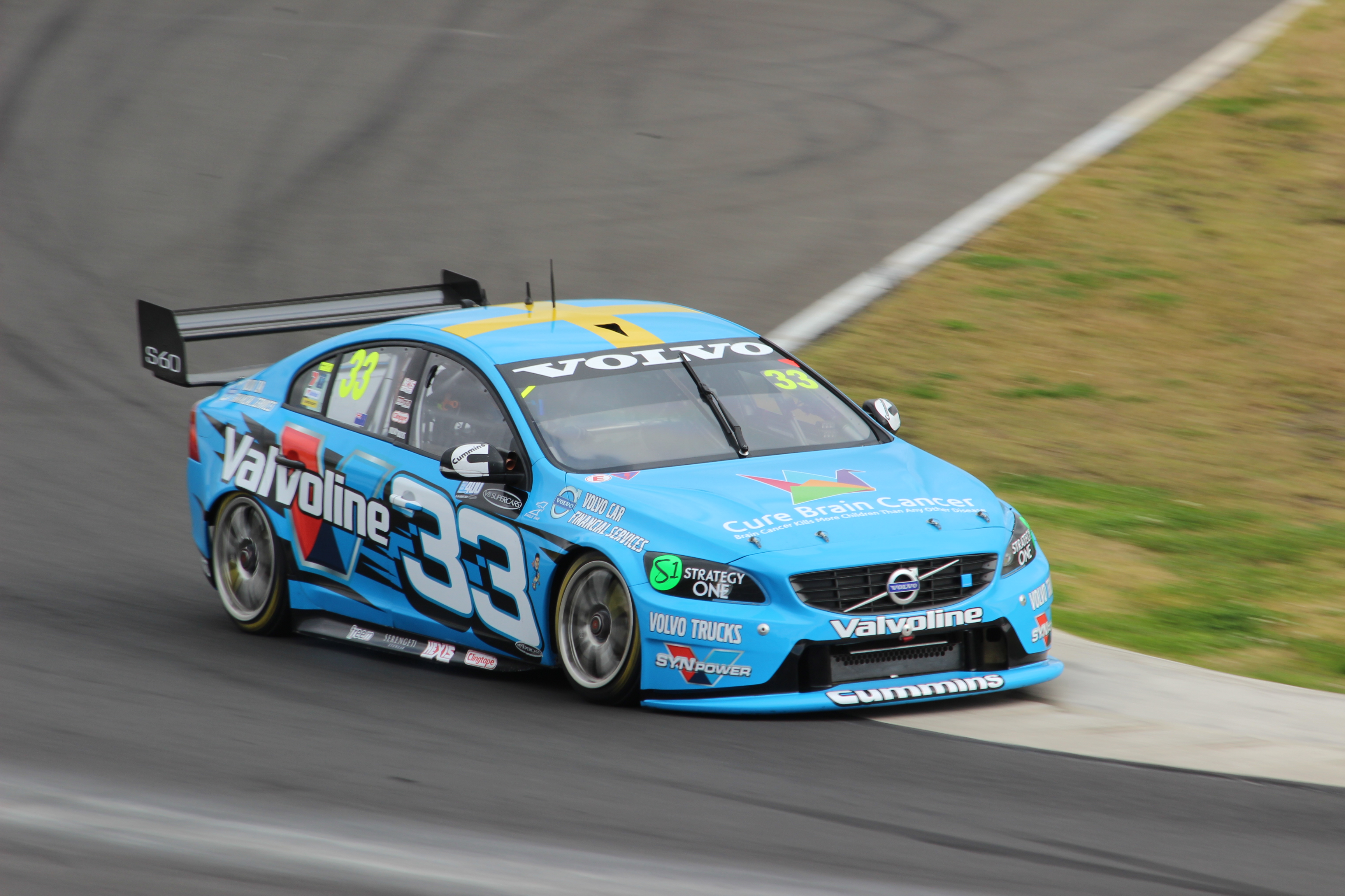 Scott McLaughlin at the 2014 Sydney Motorsport Park 400, driving a Volvo S60 for Garry Rogers Motorsport.